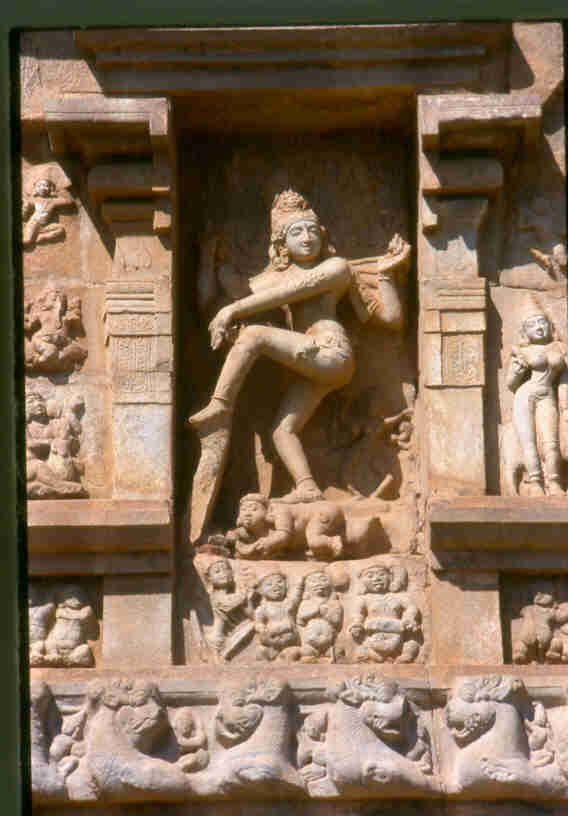 Shiva, Nataraja, Rajarajesvara Temple, Chola Dynasty, Tamil Nadu, India.